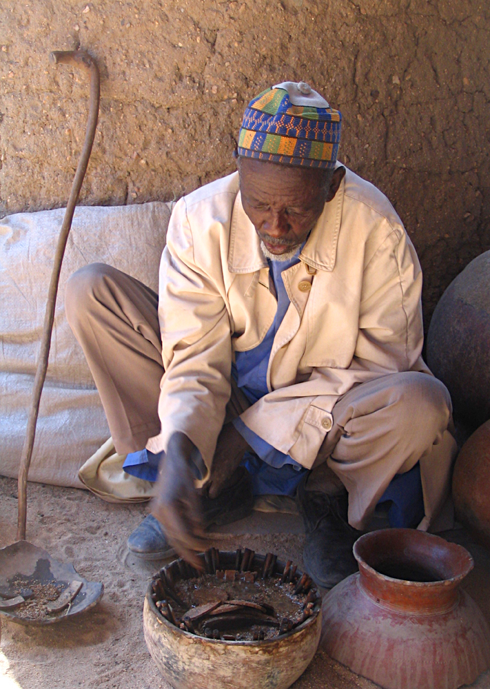 A Kapsiki crab sorcerer of Rhumsiki, Extreme North Province, Cameroon.